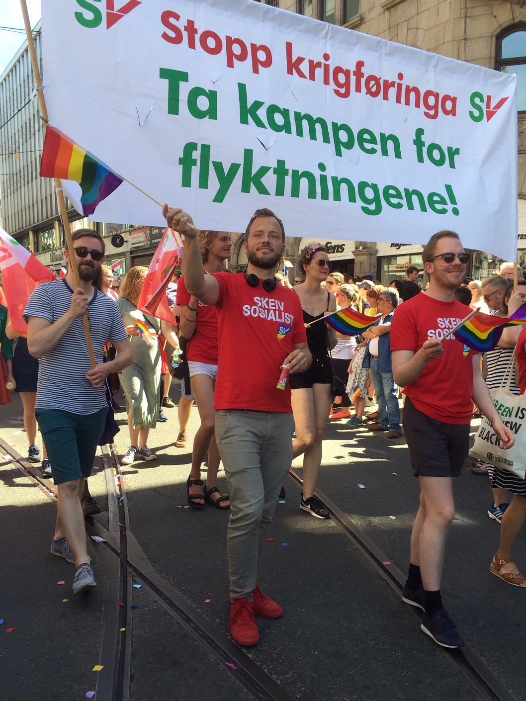 Audun Lysbakken with SV at Oslo Pride Parade 2016